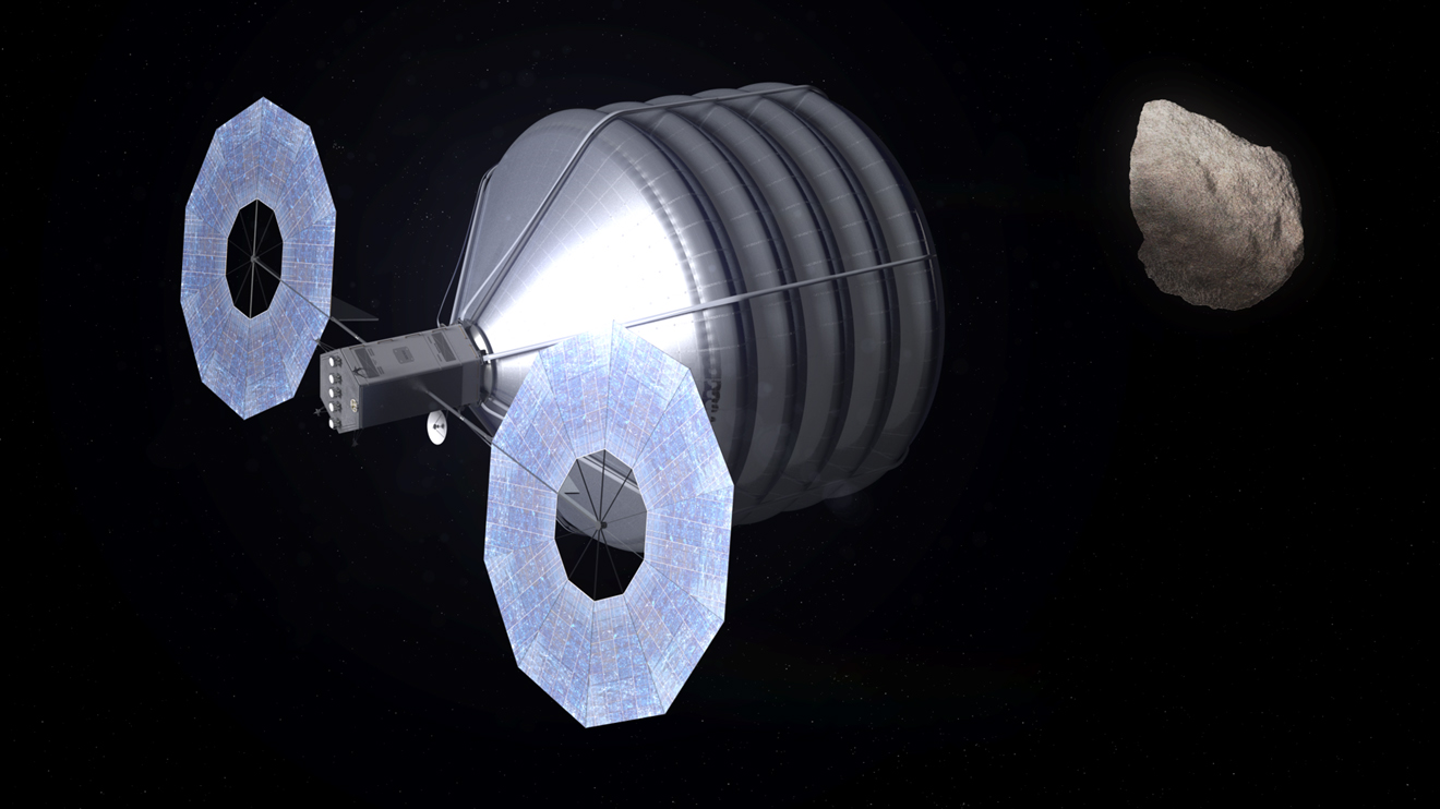 Asteroid Capture in Progress This asteroid mission brings together the best of NASA's science, technology and human exploration efforts to achieve the President's goals faster and at a lower cost to taxpayers than continuing with business as usual. This image shows what capturing an asteroid could look like. NASA will enhance its detection and characterization capabilities, accelerate solar electric propulsion technology development and begin the design of the overall mission.